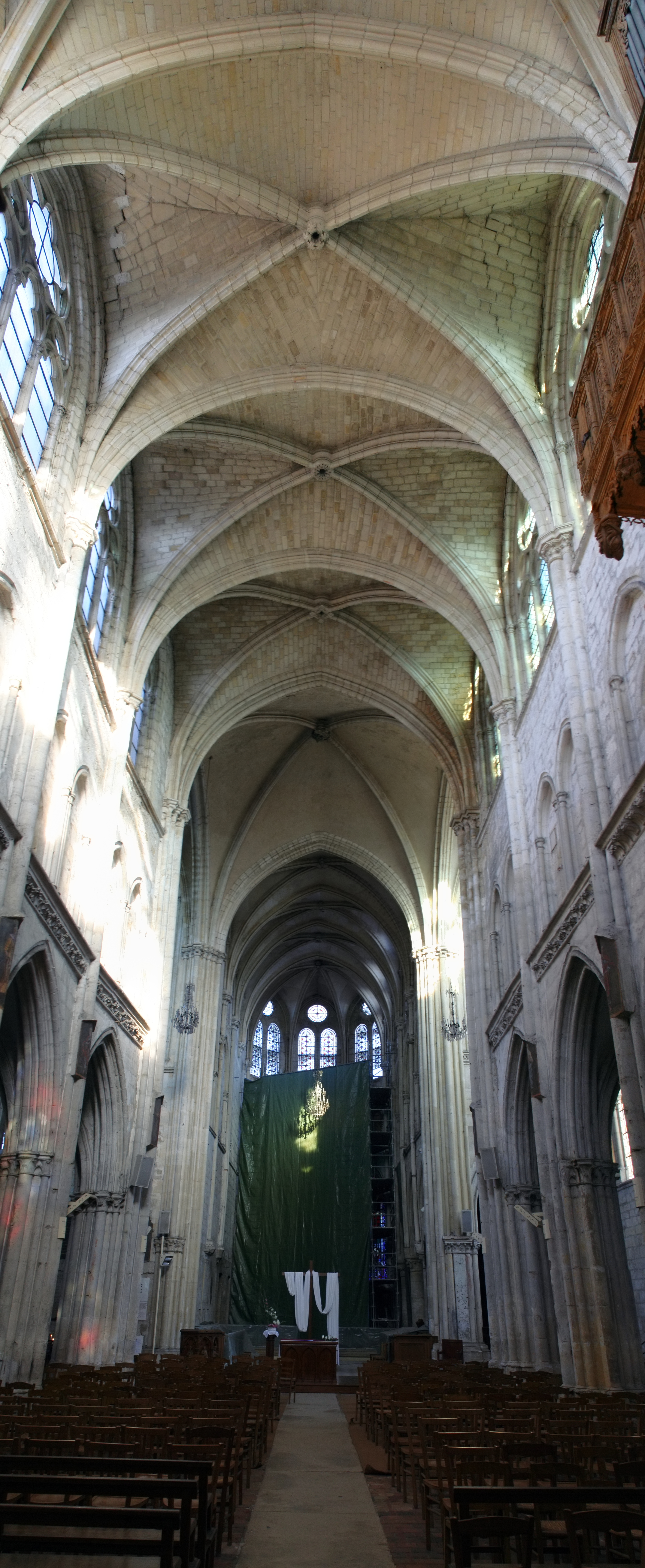 Interior view of the church of Moret-sur-Loing.